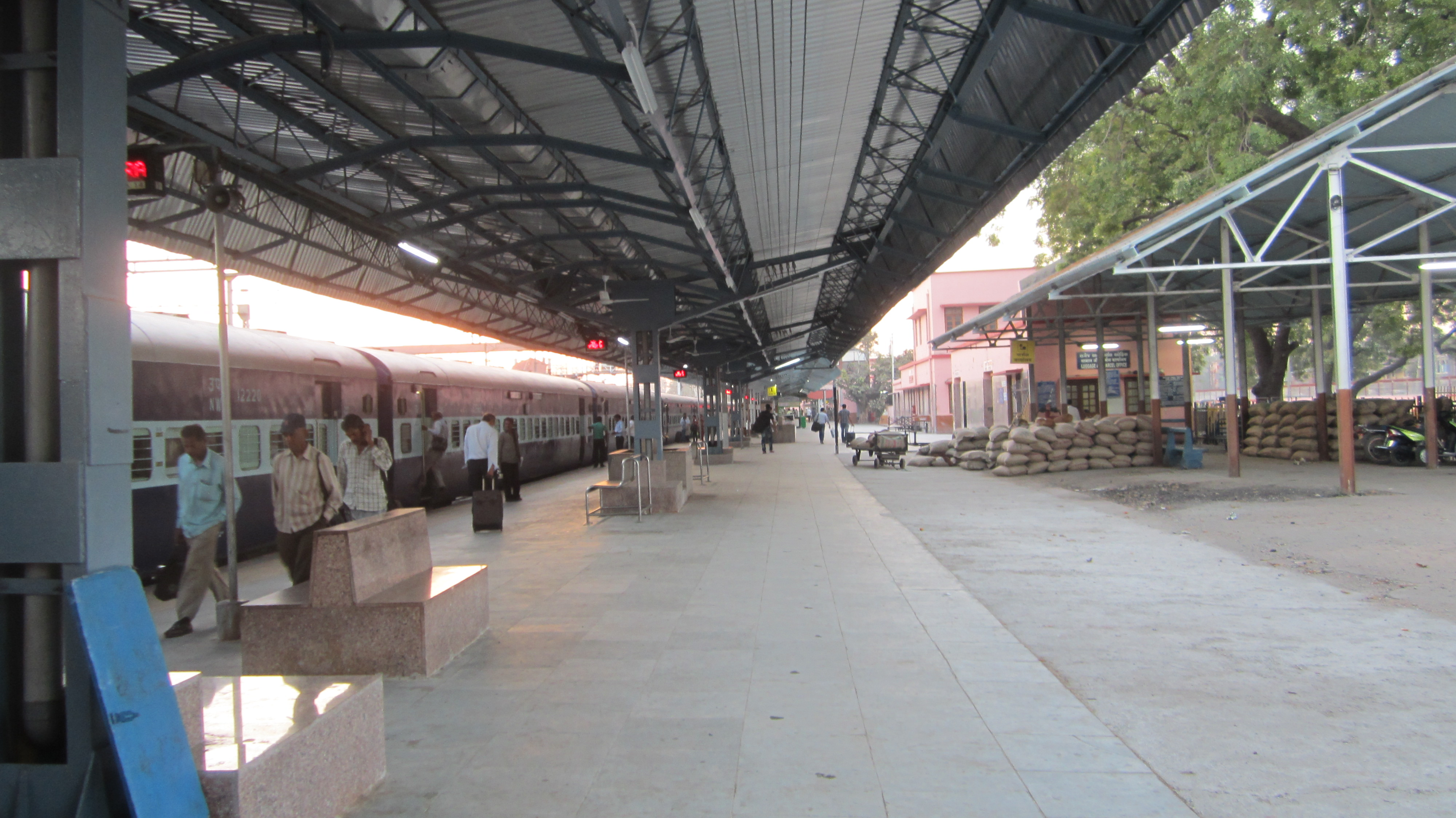 Godhra junction railway station in 2013. A view from platform.